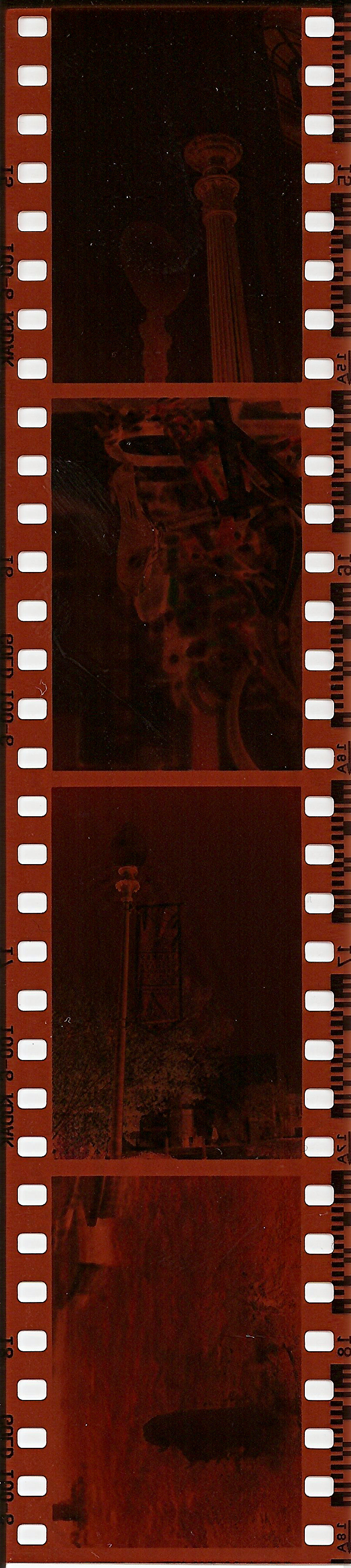 A scan of a filmstrip made by me of shots I took.